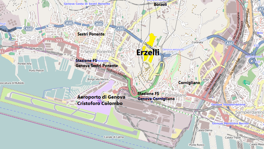 Erzelli district map in Genoa, taken from OpenStreetMap